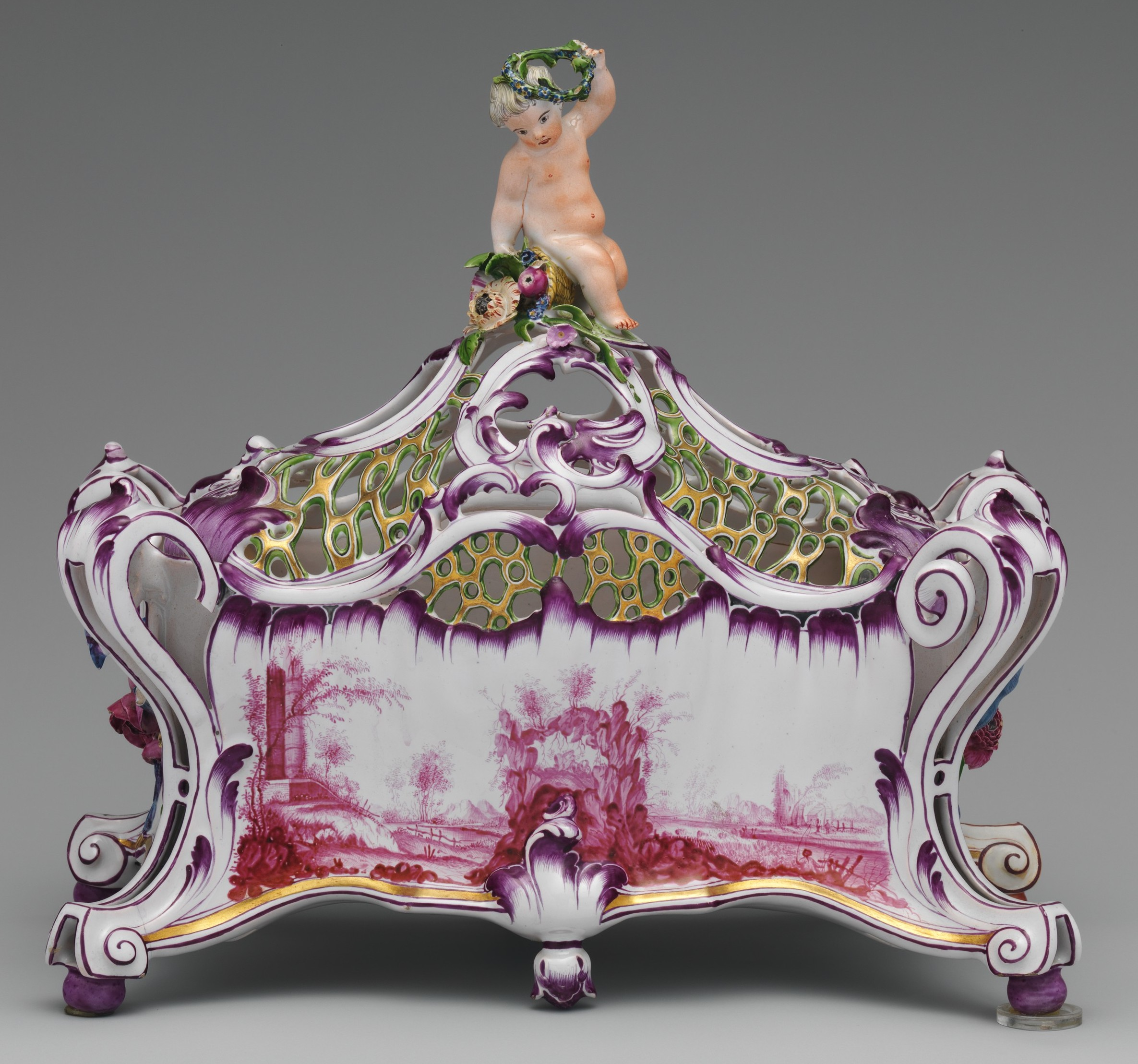 French, Niderviller; Potpourri with cover; Ceramics-Pottery